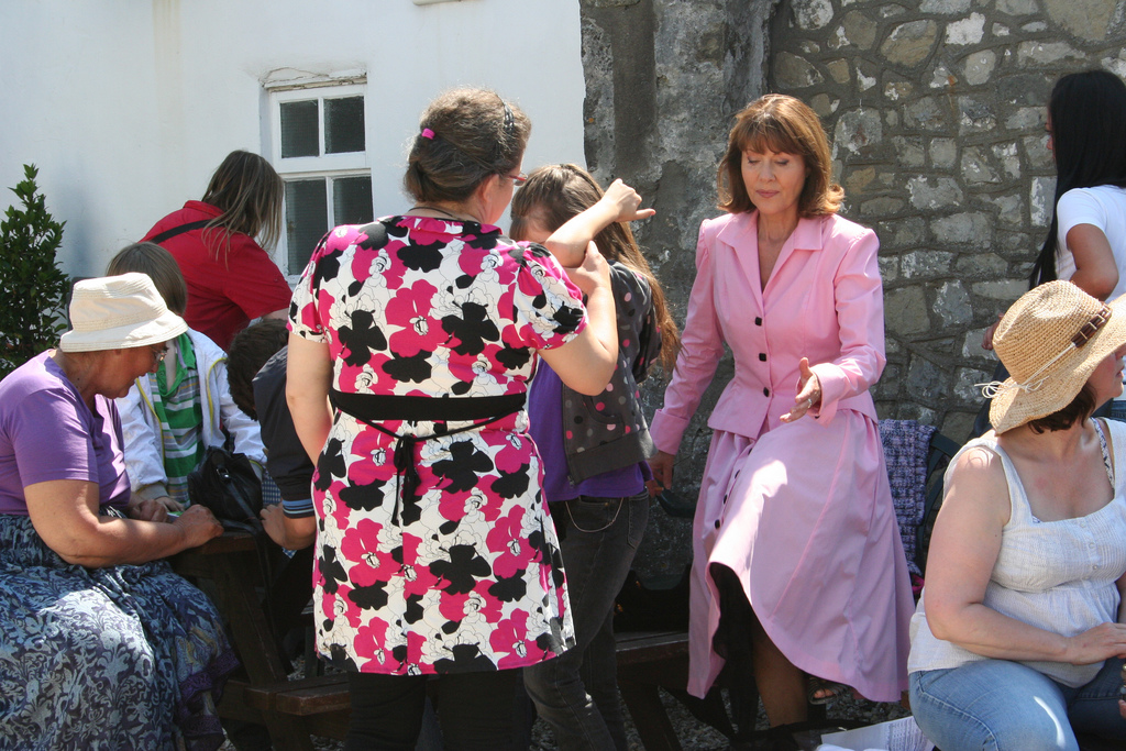 Picture canon including tw 072